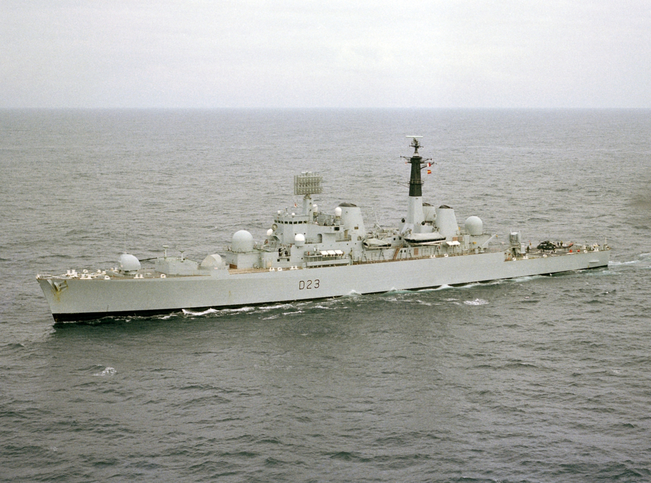 The Royal Navy guided missile destroyer HMS Bristol (D23) underway.